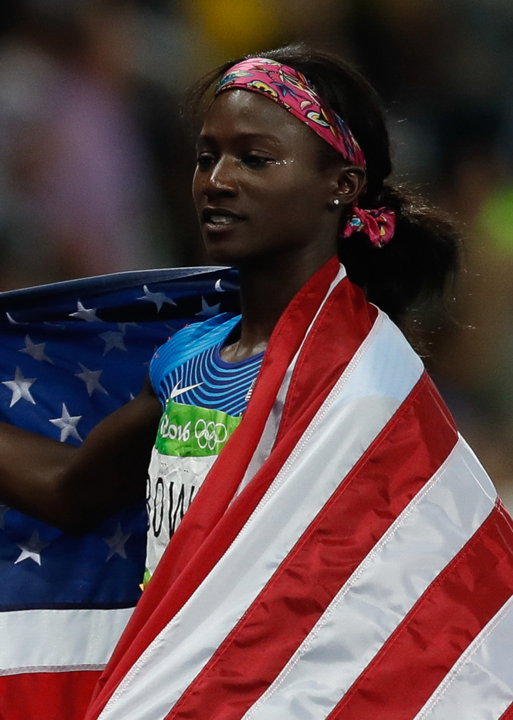 Tori Bowie, Rio 2016